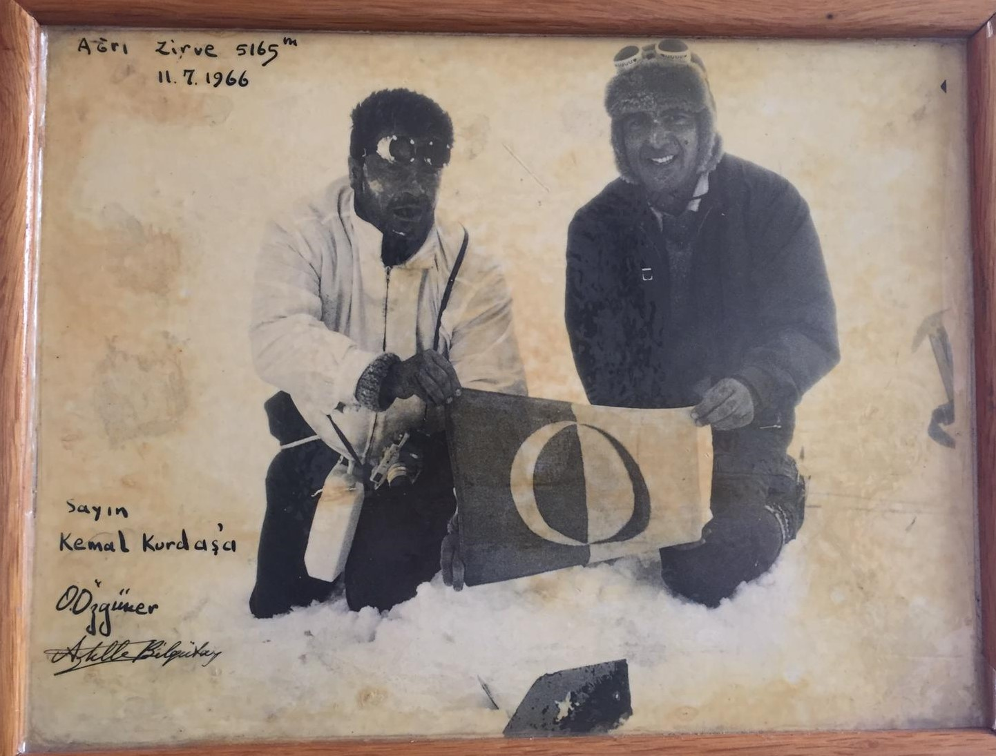 Prof.Dr.Orhan Özgüner Architecture guru ( Atilla Bilgütay (1932-1994) Died unexpectedly in Clearwater Florida from renal failure. ( Photo dedicated to the then Dean of the Middle East Technical University Mr. Mustafa Kemal Kurdaş (1920-2011) Courtesy of Meltem Çolak archive